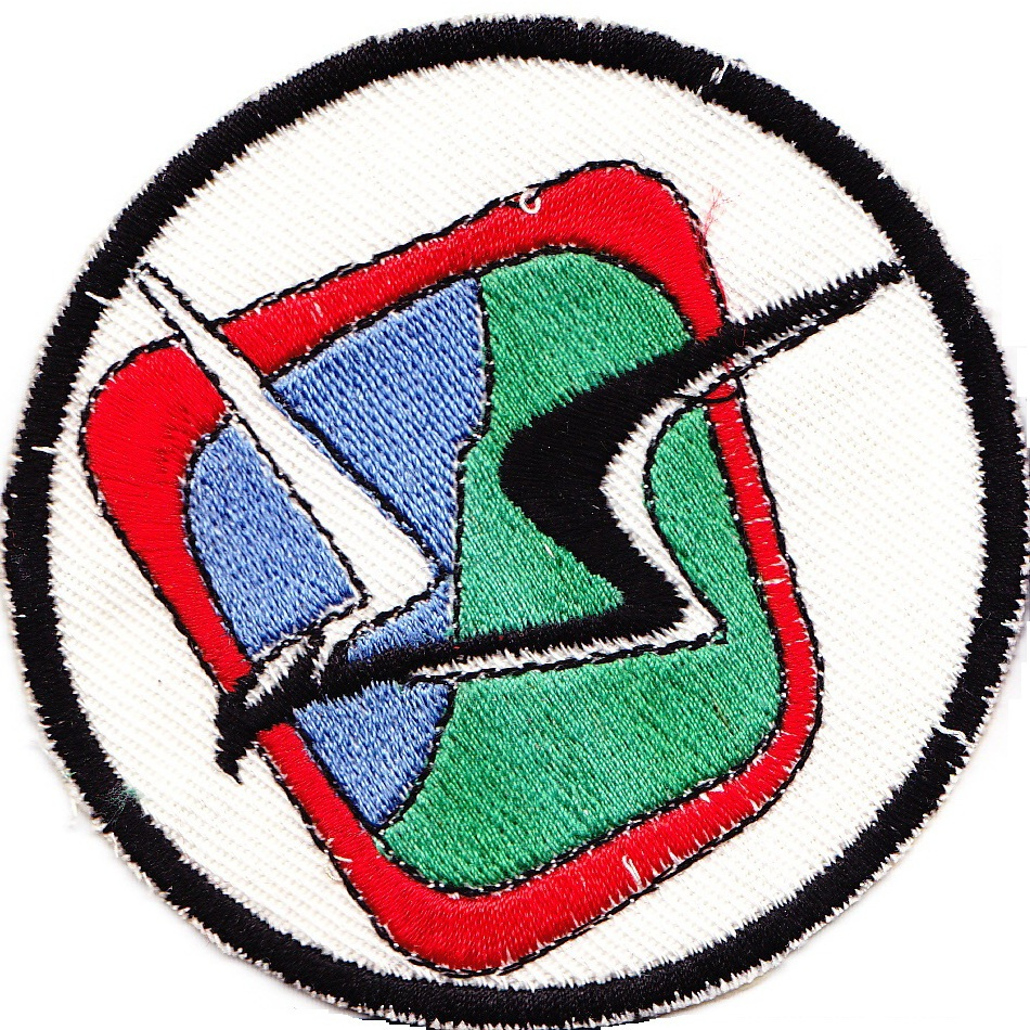 IAF Squadron 254 symbol